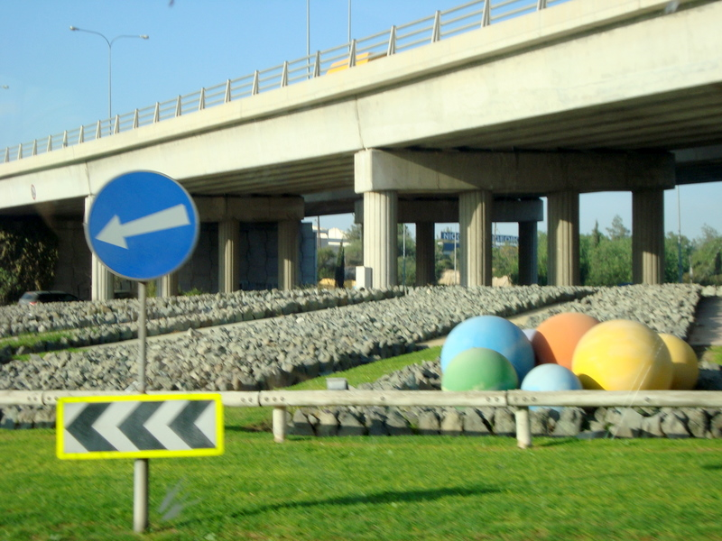 Round About in Nicosia. A1 Highway in Nicosia leads to that Round about.